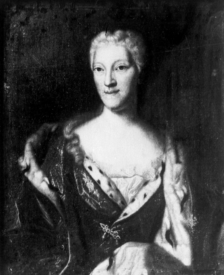 Portrait of Countess Charlotte of Hanau-Lichtenberg (1700-1726), wife of Louis VIII, Landgrave of Hesse-Darmstadt